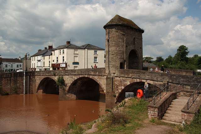 Monnow Bridge The only remaining medieval fortified river bridge in Britain. The bridge is 13th century, fortified with the gatehouse in the 14th century